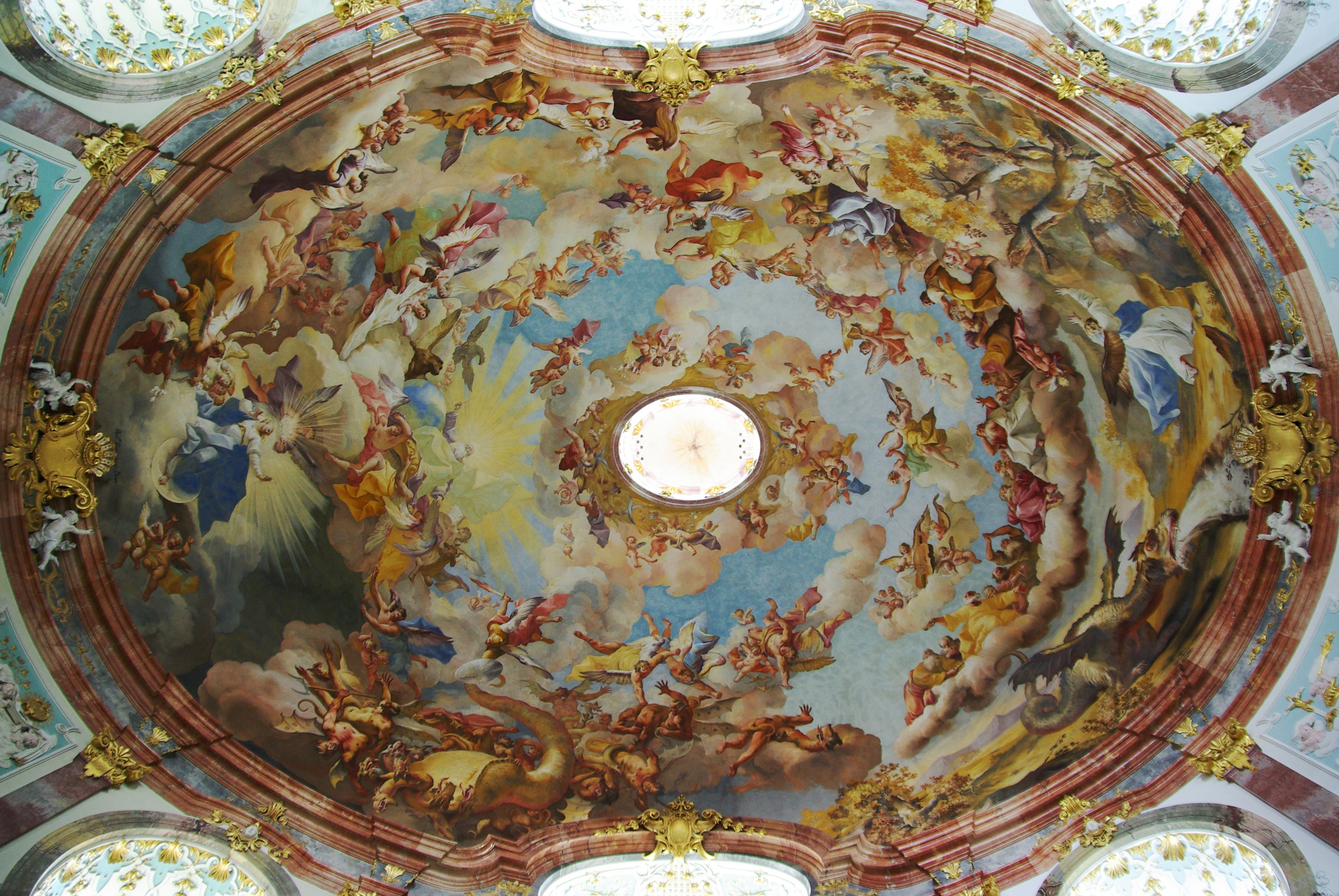 Altenburg Abbey, a Benedictine monastery in Lower Austria.